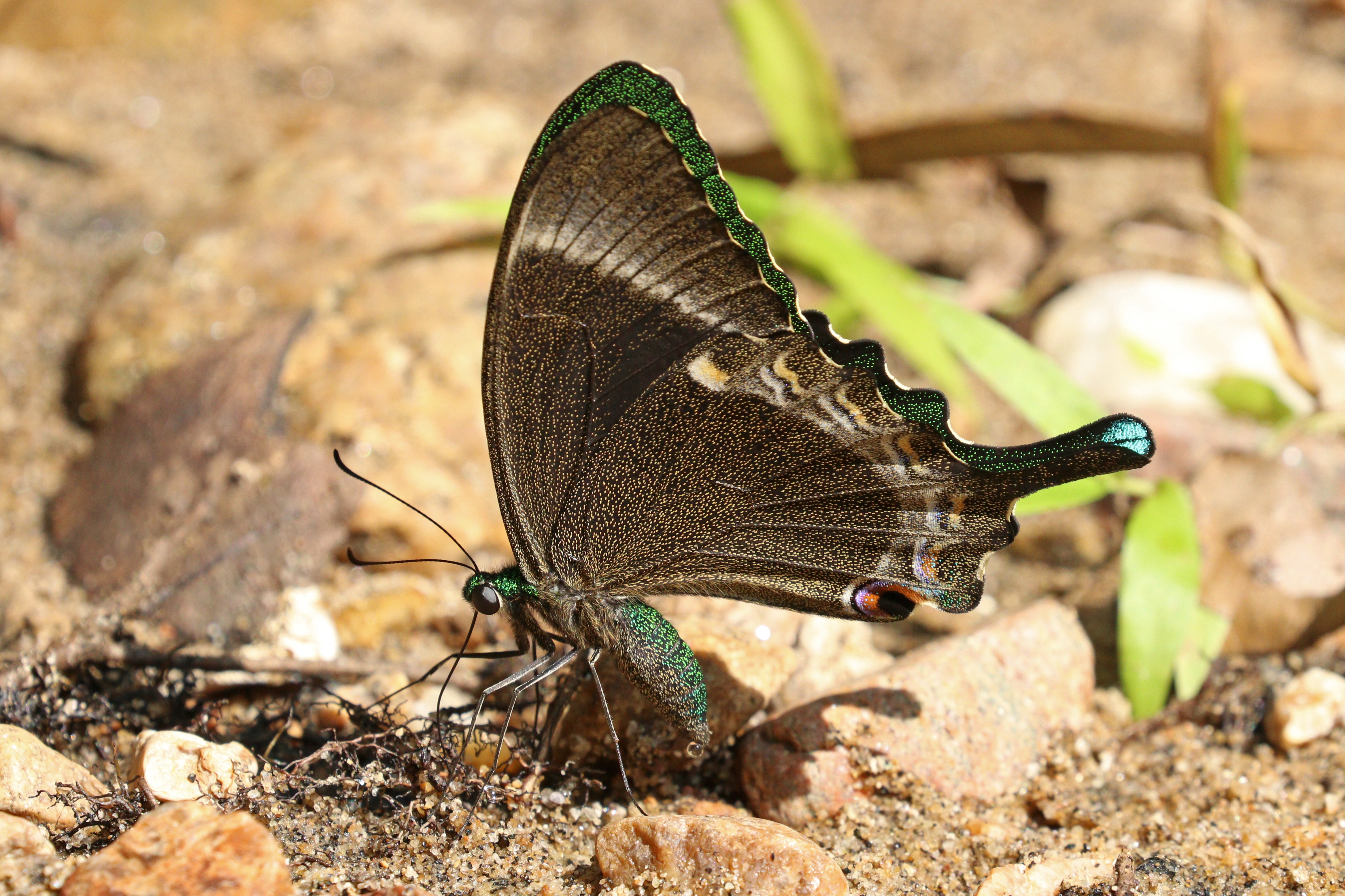 Common banded peacock (Papilio crino), Chinnar Wildlife Sanctuary, Kerala, India. It is likely that this puddling butterfly is excreting K+ rich fluid.